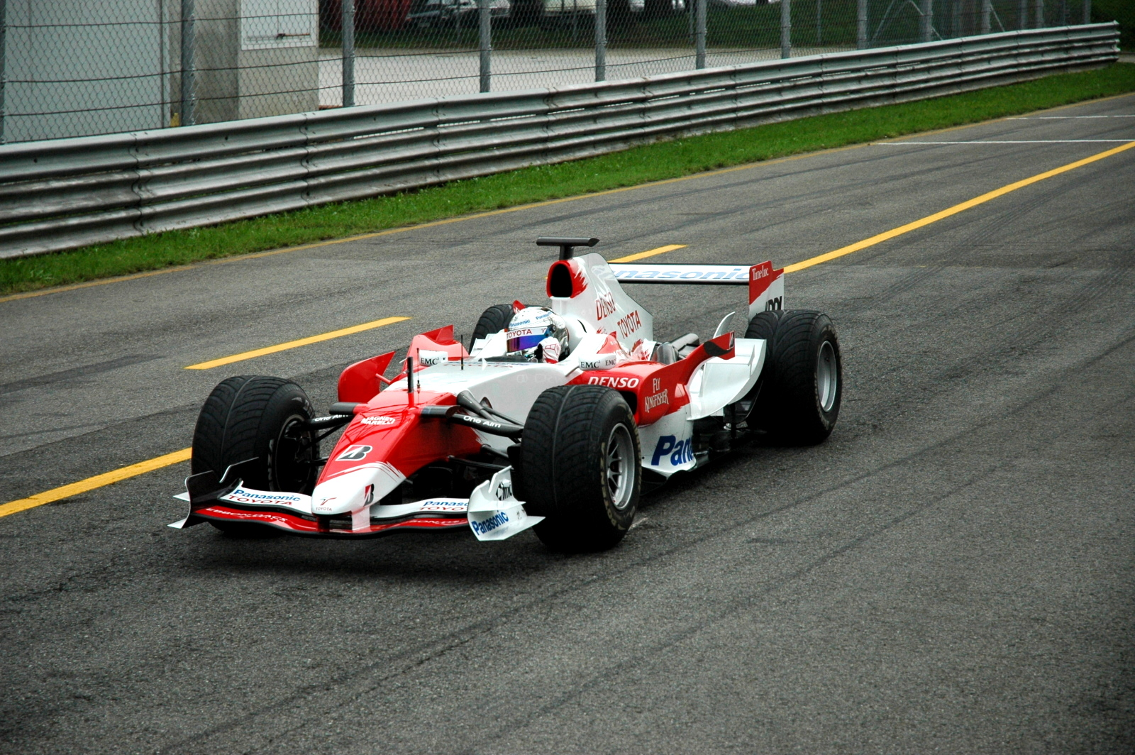 Jarno Trulli testing for Toyota at Monza in 2007.